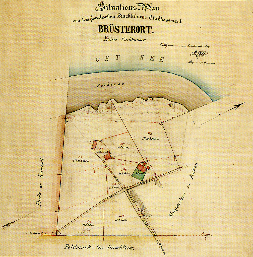 Sketch of buildings of the Brüsterort lighthouse from GStA PK Berlin by 1873. Ref. 25295. Secondary source: Antoni F. Komorowski, Iwona Pietkiewicz, Adam Szulczewski. Najstarsze latarnie morskie Zatoki. Gdańskiej [The oldest Gulf of Gdansk Lighthouses]. Gdańsk: Fundacja Promocji Przemysłu Okrętowego i Gospodarki Morskiej, 2009. — ISBN: 978-83-60584-16-3. — Wydanie I [1st Edition].